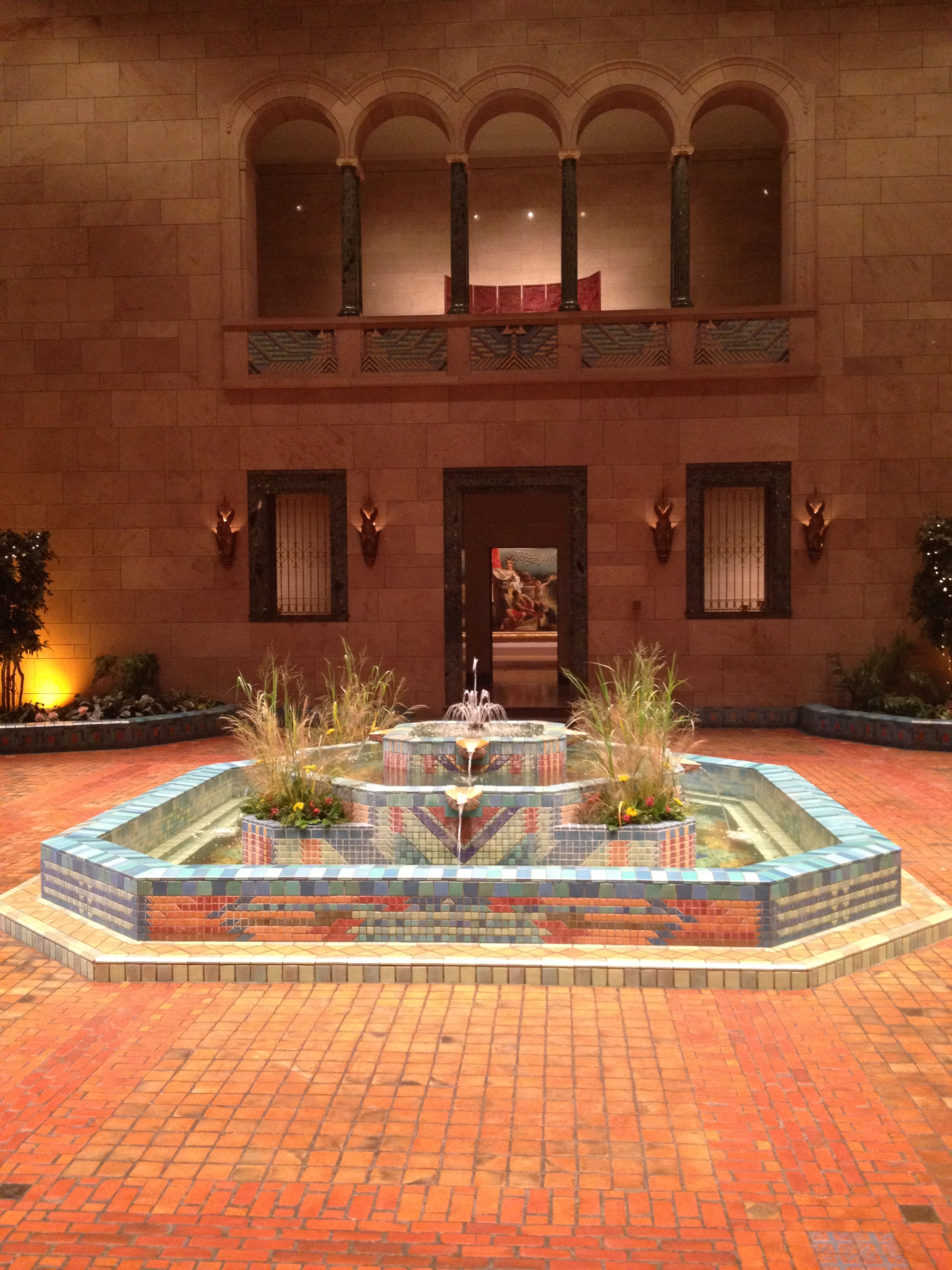 The Fountain Court at the Joslyn Art Museum in Omaha, Nebraska